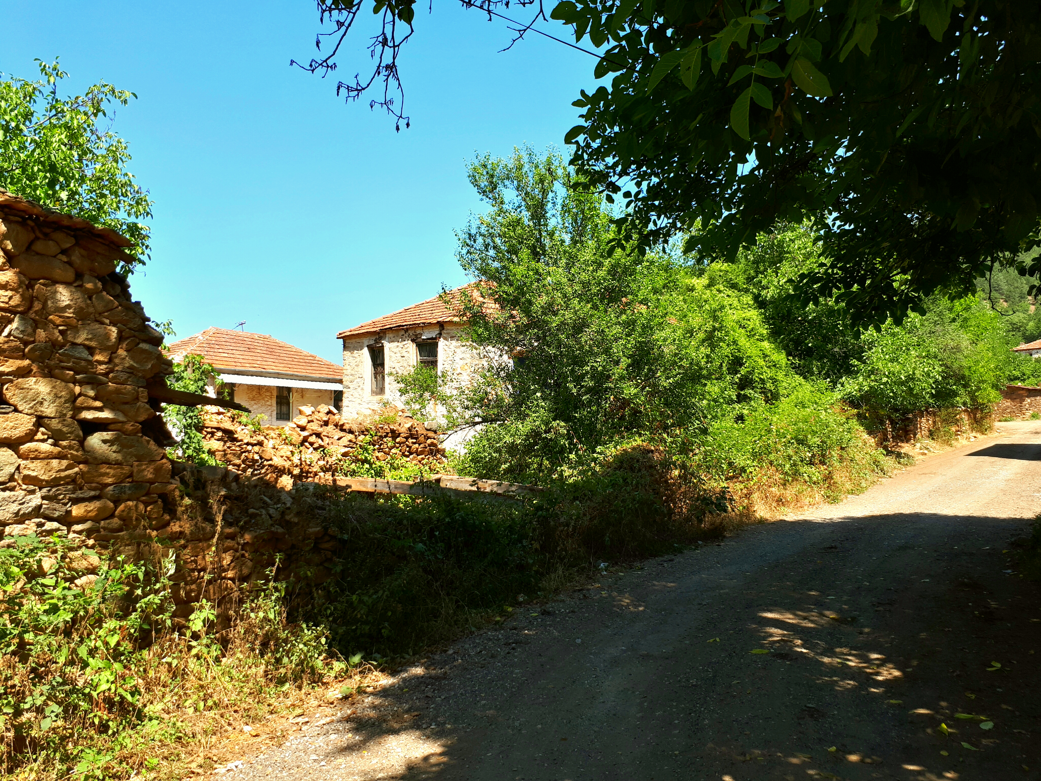 Part of the Veloexpedition in 2017